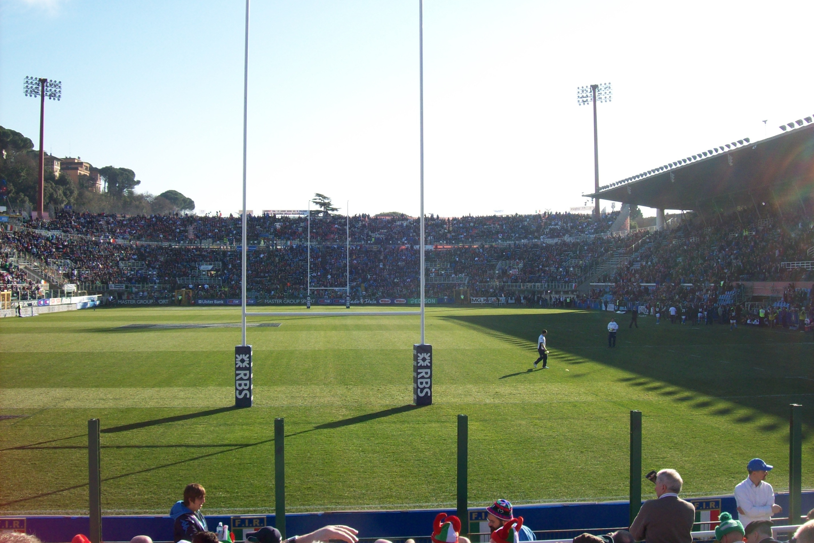 The Stadio Flaminio in Rome hosting the match Italy vs Ireland at the 2011 Six Nations